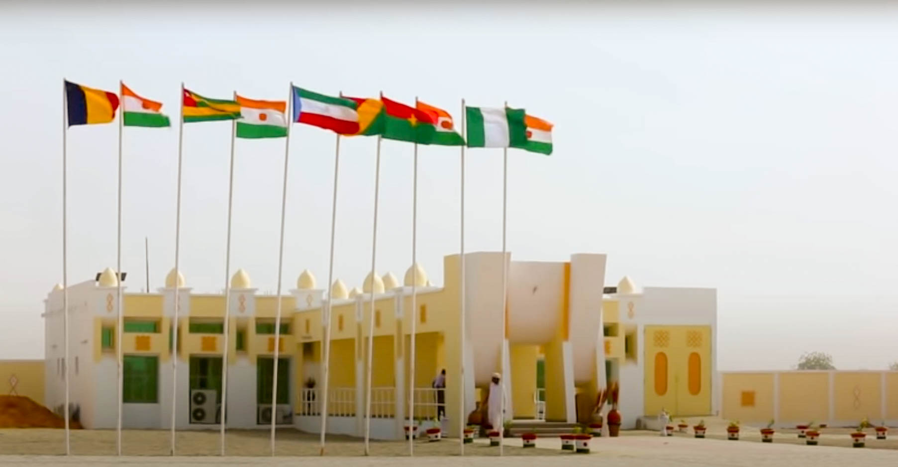 Aéroport International de Zinder